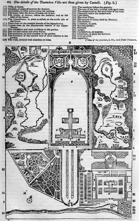 The_Tusoulan_villa,(today Frascati), Picture in book of Loudon, J. C. (John Claudius), 1783-1843, An encyclopaedia of gardening; comprising the theory and practice of horticulture, floriculture, arboriculture, and landscape-gardening, including all the latest improvements; a general history of gardening in all countries; and a statistical view of its present stat, with suggestions for its future progress, in the British Isles (1828), page 29